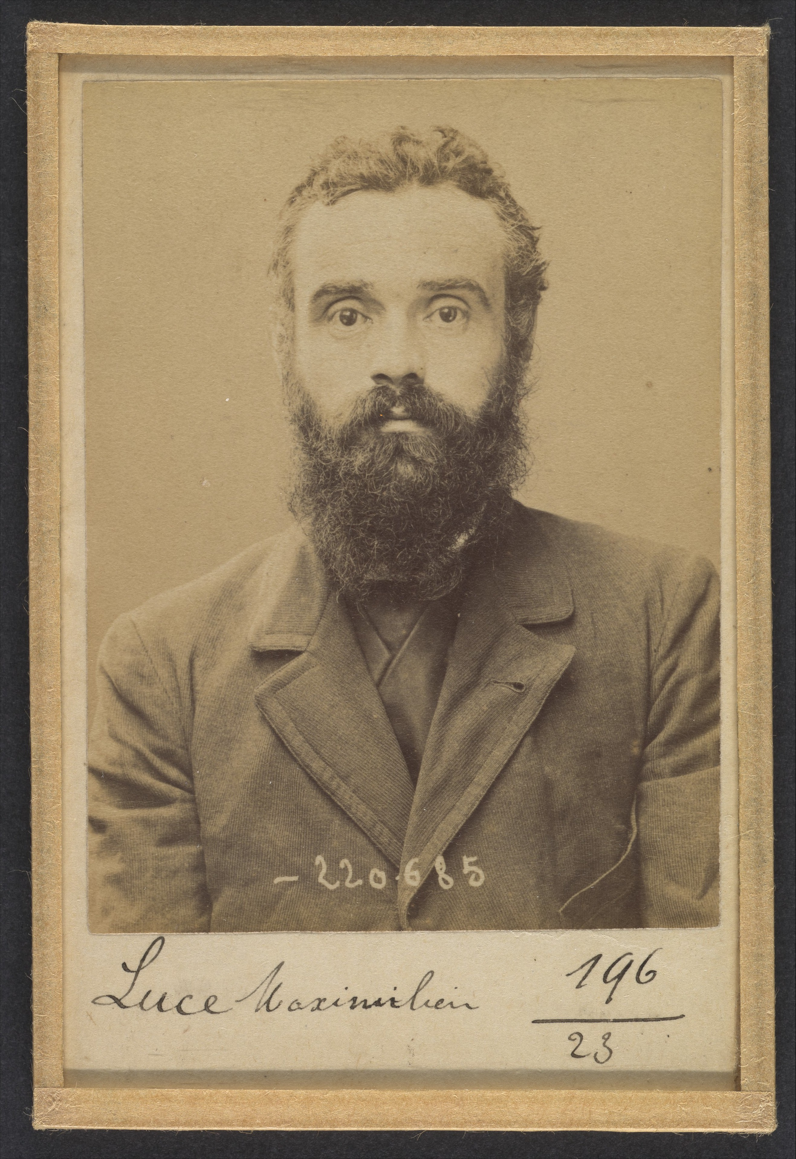 Mugshot; Photographs